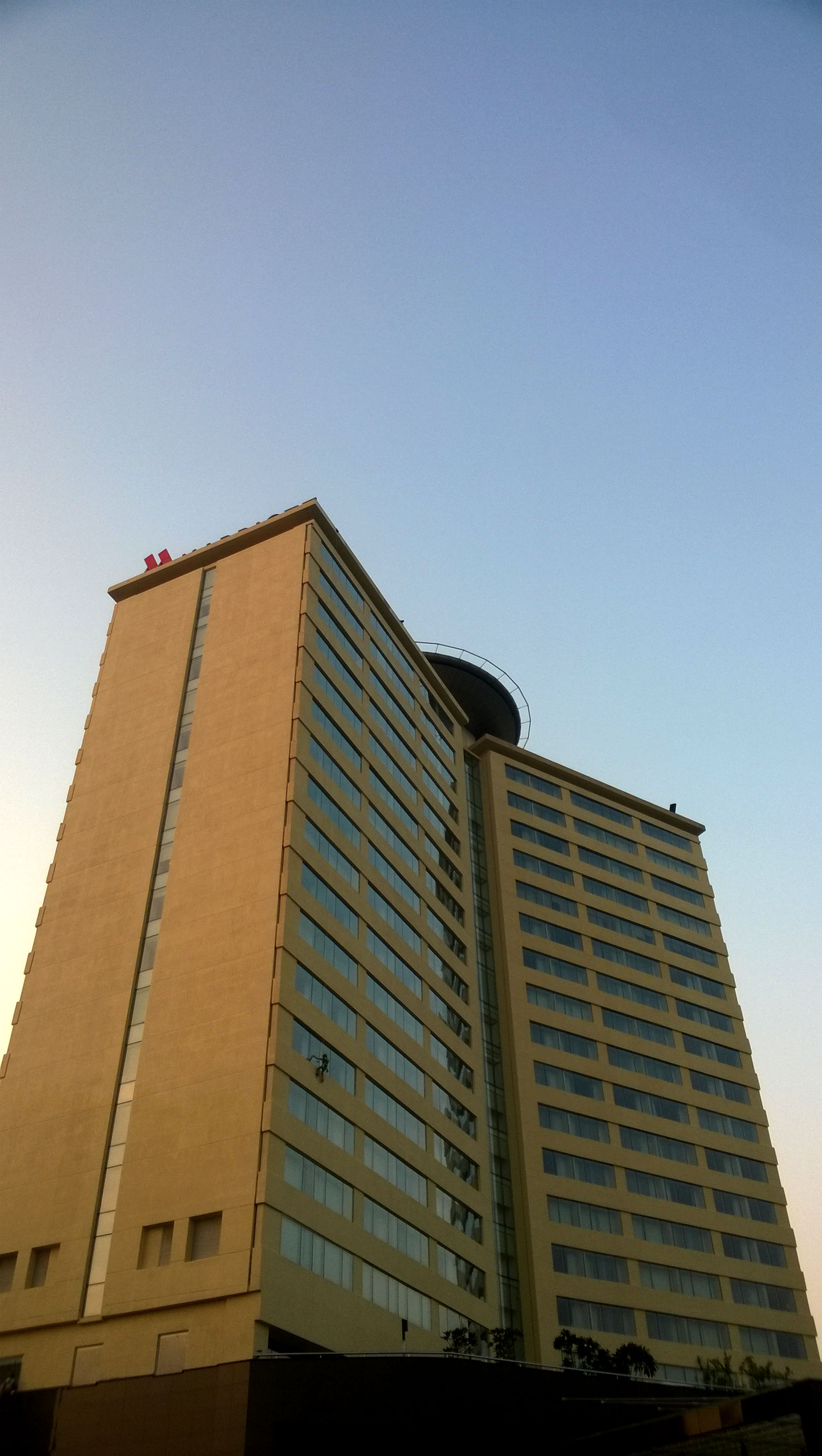 Marriott Hotel kochi - Near Lulu mall - kalamassery